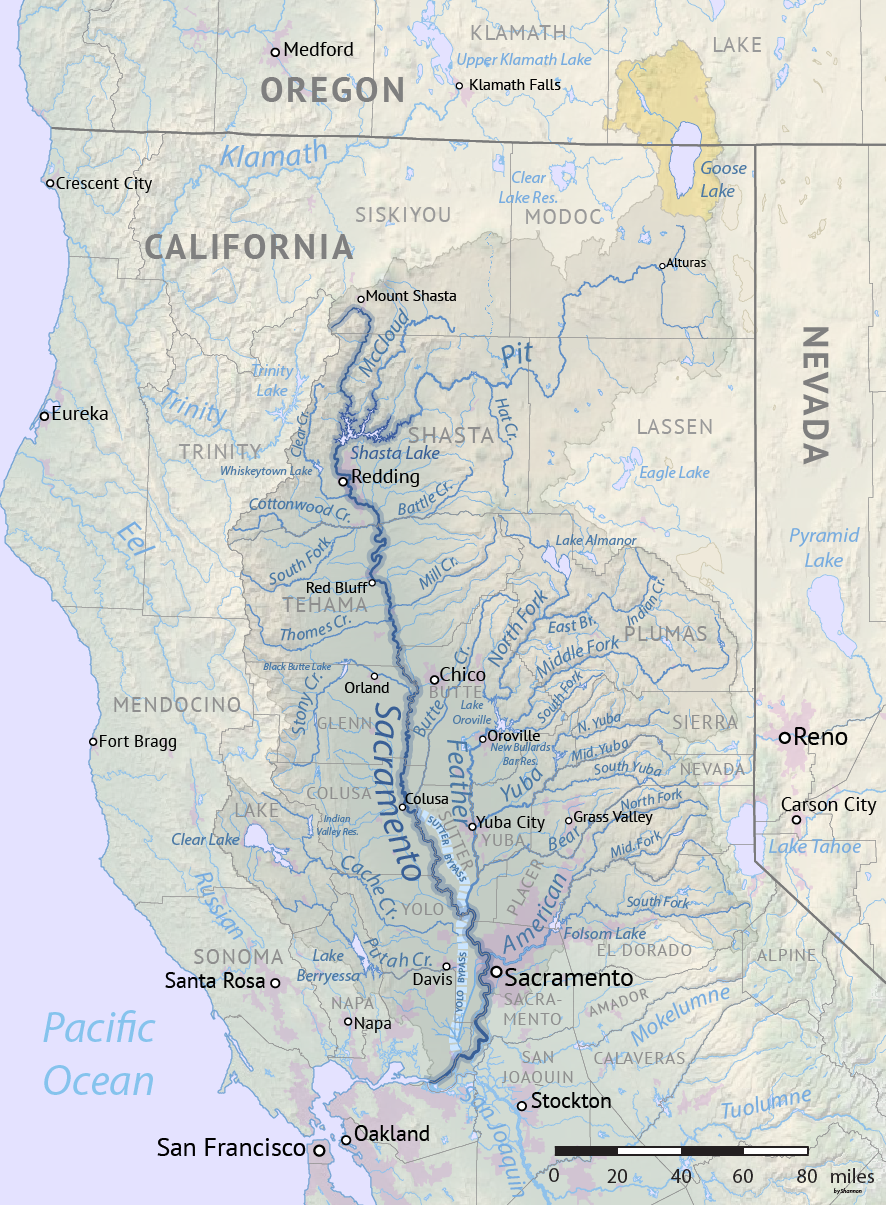 Map of the Sacramento River drainage basin. The historically connected Goose Lake drainage basin is shown in orange. Made using USGS National Map and NASA SRTM data.